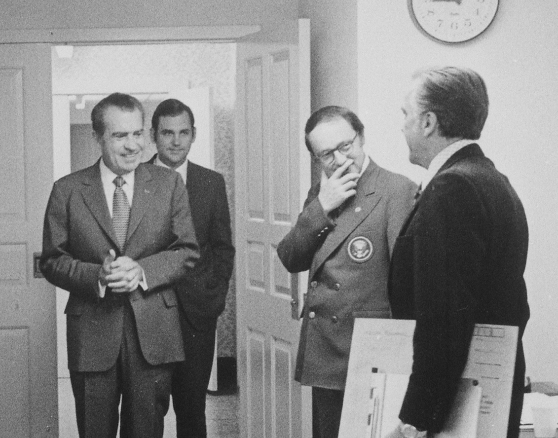 President Richard Nixon (left) departs from Bethesda Naval Hospital in Bethesda, Maryland, in the United States on July 20, 1973, following treatment for viral pneumonia. Also pictured (left to right): White House press secretary Ronald Ziegler; Major General Walter R. Tkach, Physician to the President; and Captain Dudley Brown, Jr.